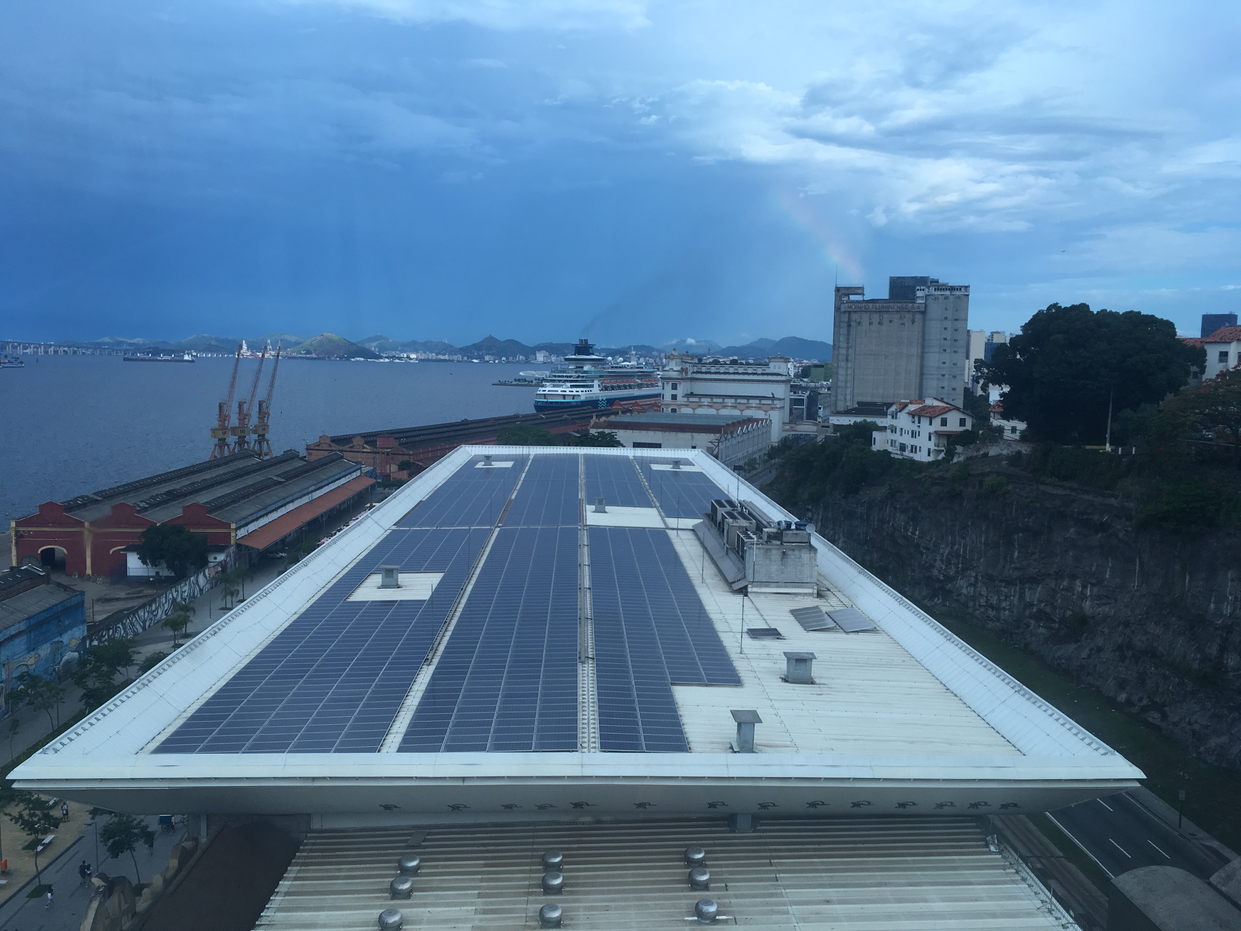 AquaRio solar roof seen from the ferris wheel Rio Star.